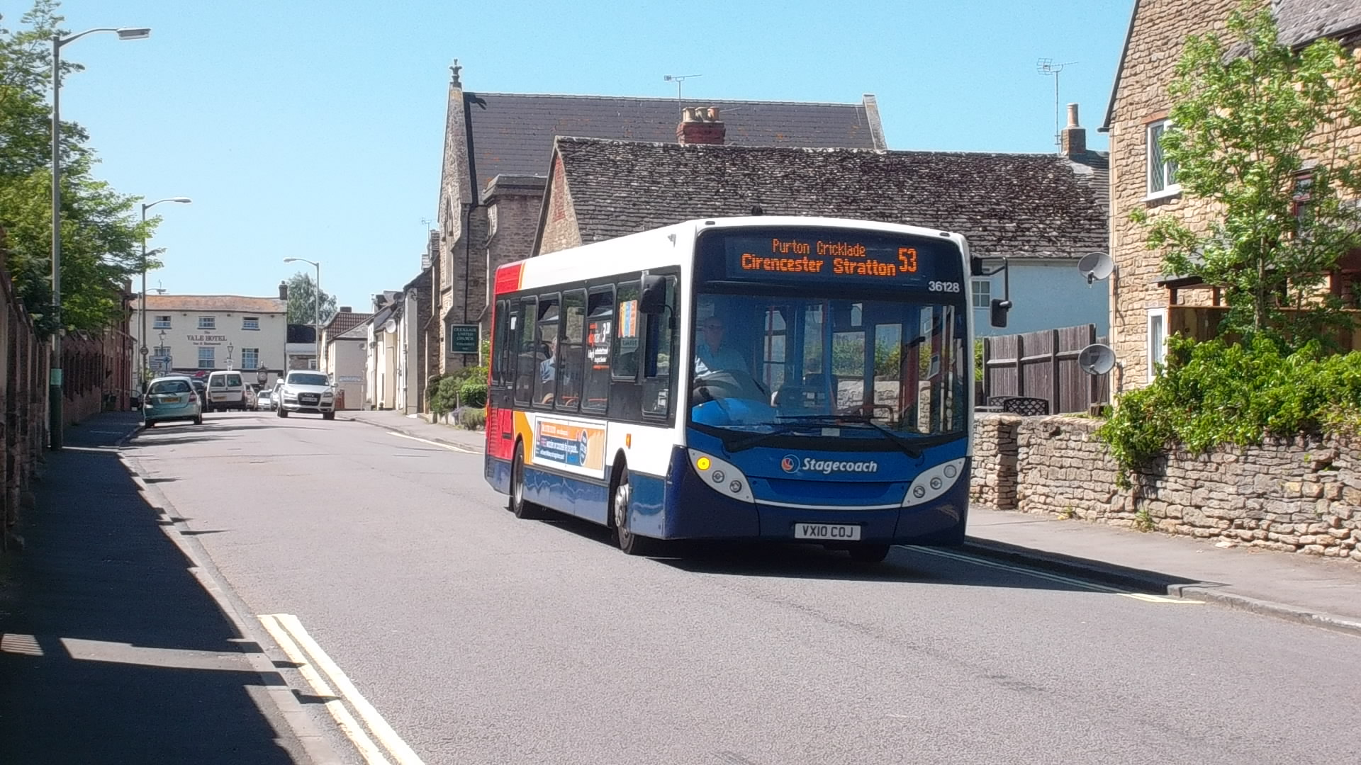 An Alexander Dennis Enviro 200 Dart, fleet no. 36128, Reg: VX10 COJ. Serve at route 53 from Swindon to Cirencester. Took in Calcutt Street, Cricklade, Wiltshire.中文（香港）: 屬於捷達巴士車隊（英國西部，斯溫頓）的亞歷山大丹尼士Enviro 200 Dart,車隊編號:36128,車牌號碼:VX10 COJ.